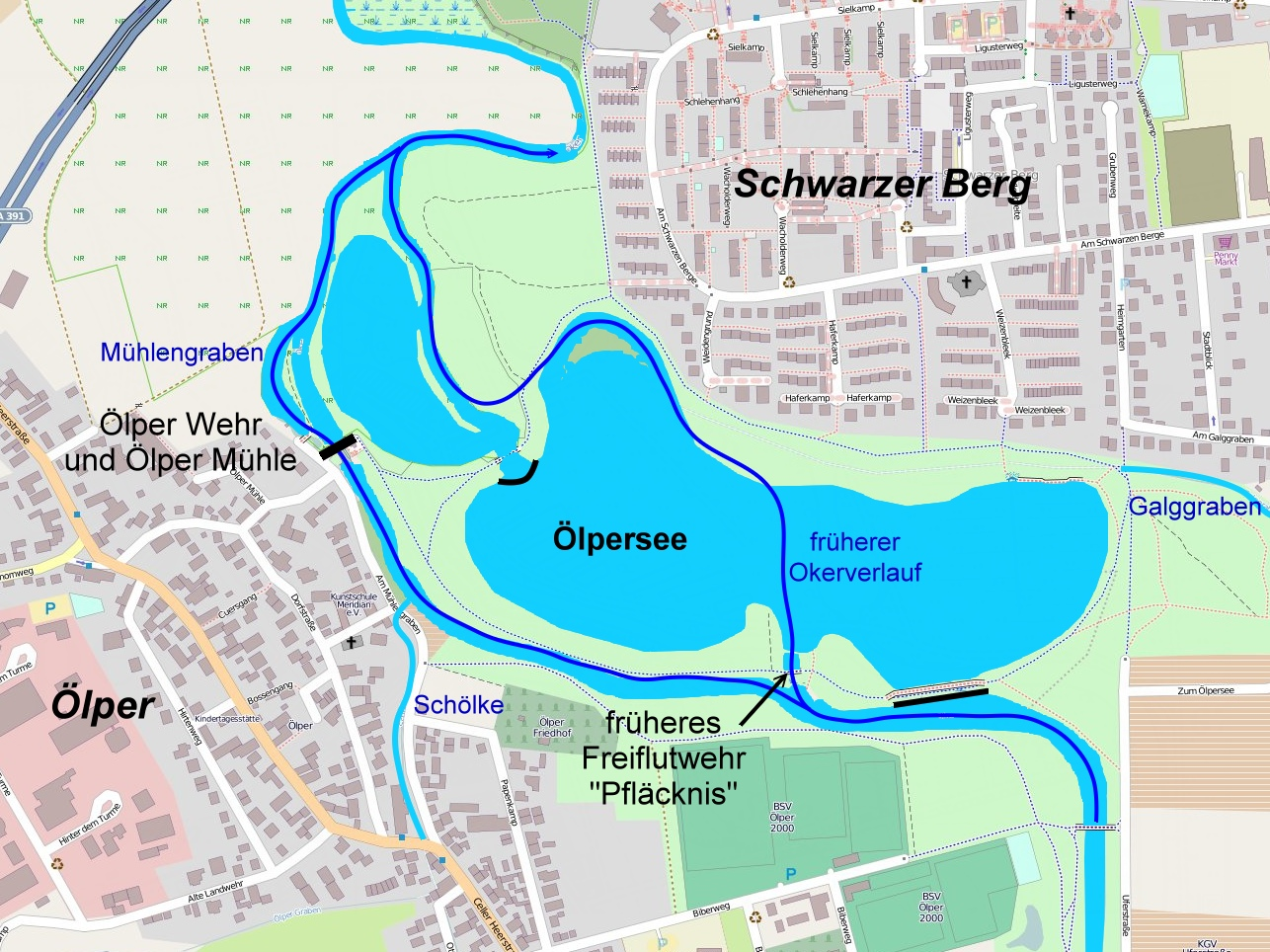 Situation of Oelpersee in Braunschweig